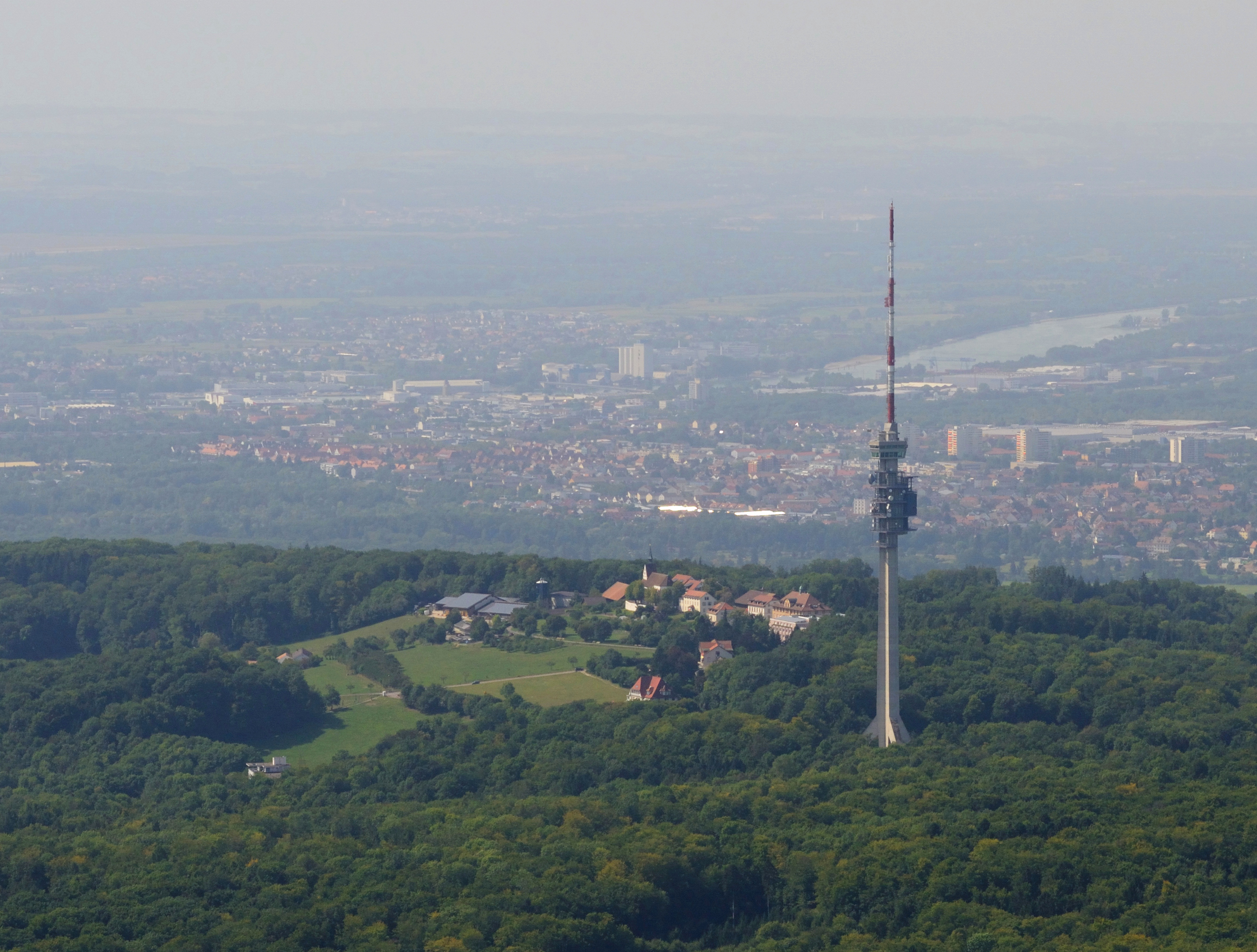 aerial view of Television Tower St. Chrischona